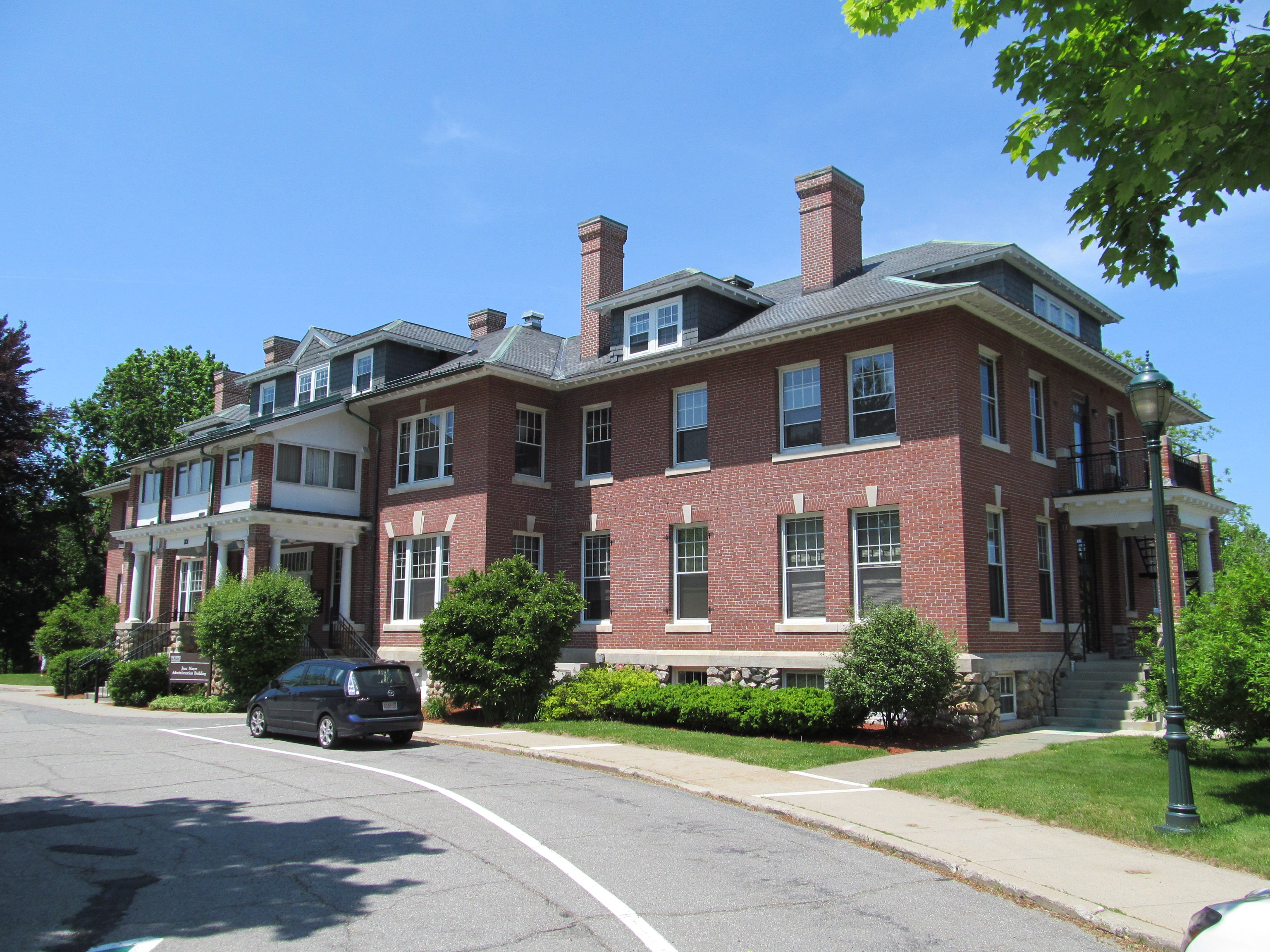 Jean Mayer Administration Building, Cummings School of Veterinary Medicine, North Grafton Massachusetts